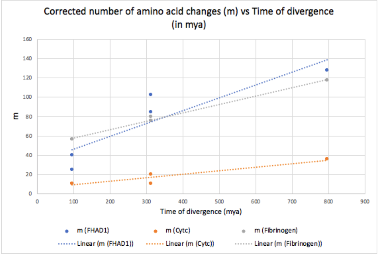 Graph of the the corrected number of amino acid changes vs time of divergence for FHAD1, fibrinogen and cytc.